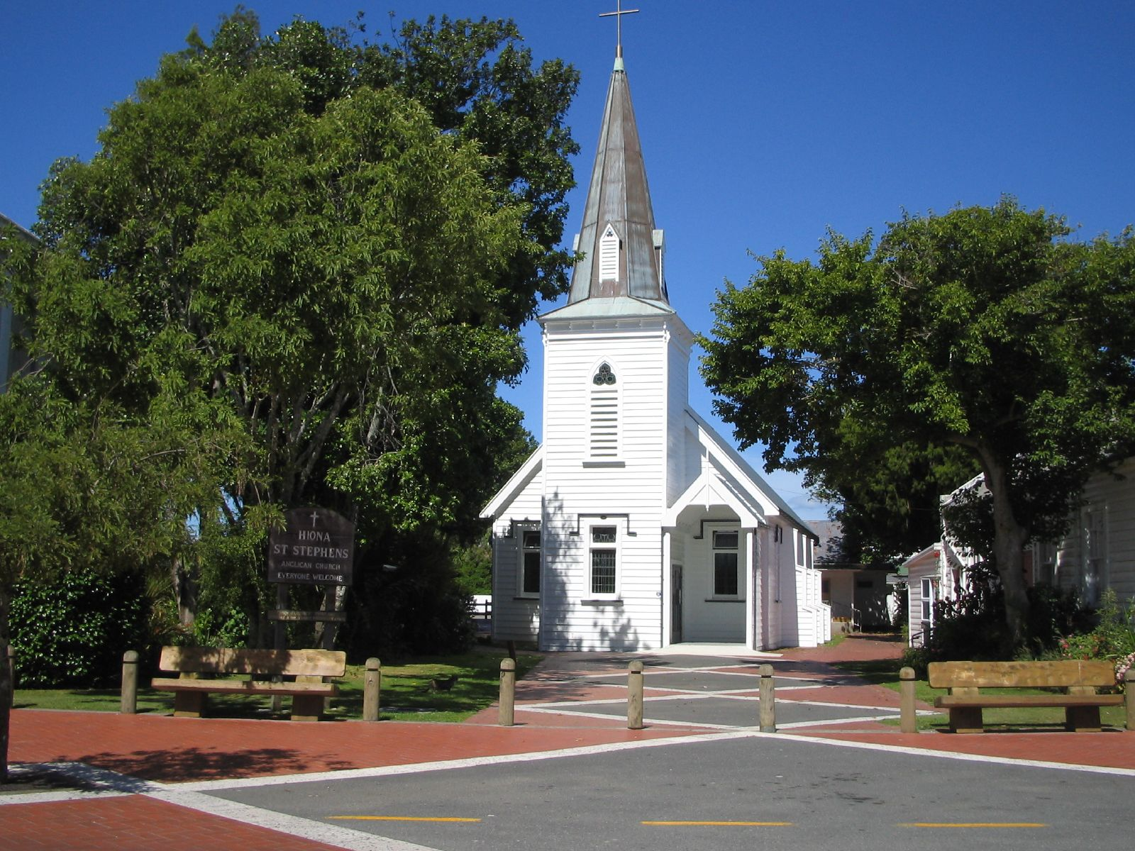 Opotiki is a town in the Bay of Plenty area on New Zealand. This is Hiona St Stephen's Anglican Church, completed by Reverend Karl Volkner in the 1860s. New Zealand Historic Places Trust Register number 142.